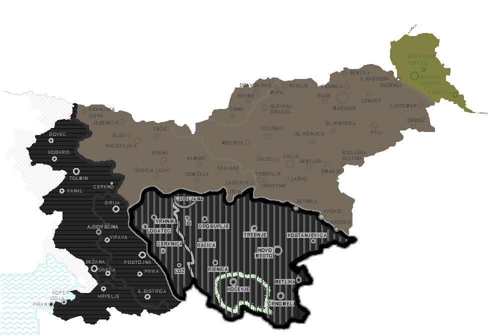 The Province of Ljubljana within the borders of present-day Slovenia; showing Slovene territory divided between Nazi Germany, Hungary, and Italy, including the area already annexed by Italy with the Treaty of Rapallo and a silhouette of Gottschee area.